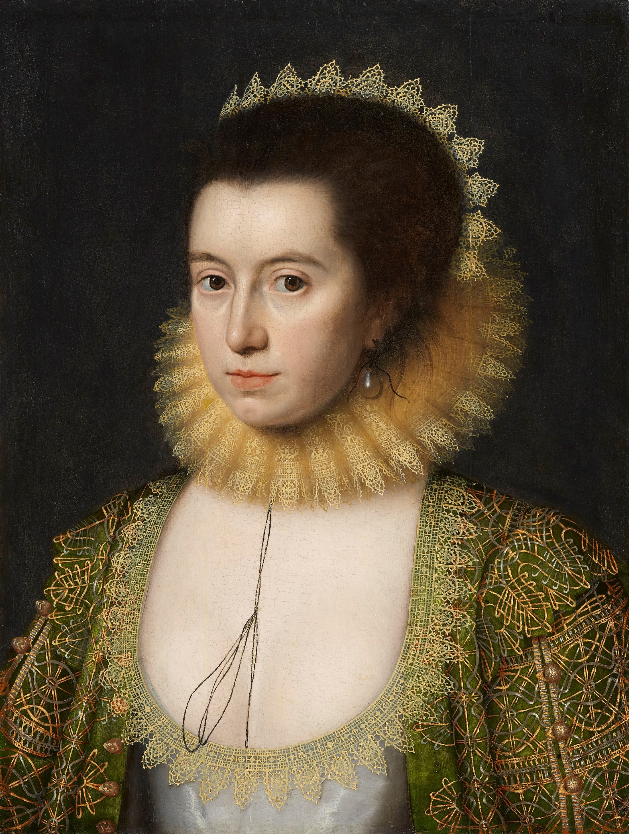 Portrait of Anne Clifford, Countess of Dorset and later Countess of Pembroke (1590 - 1676).